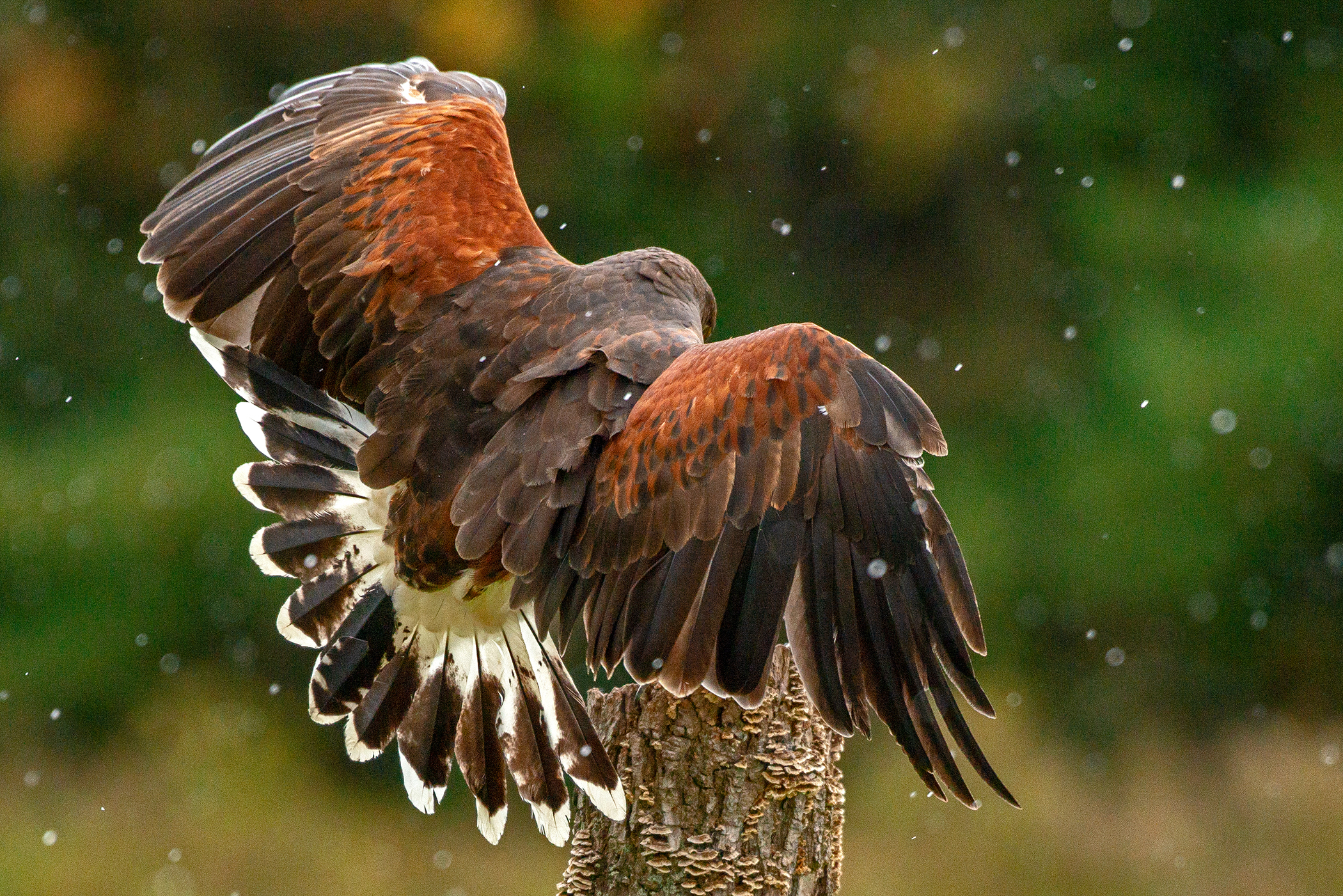 The distinctive tail feathers clearly confirm that this is a Harris' hawk.